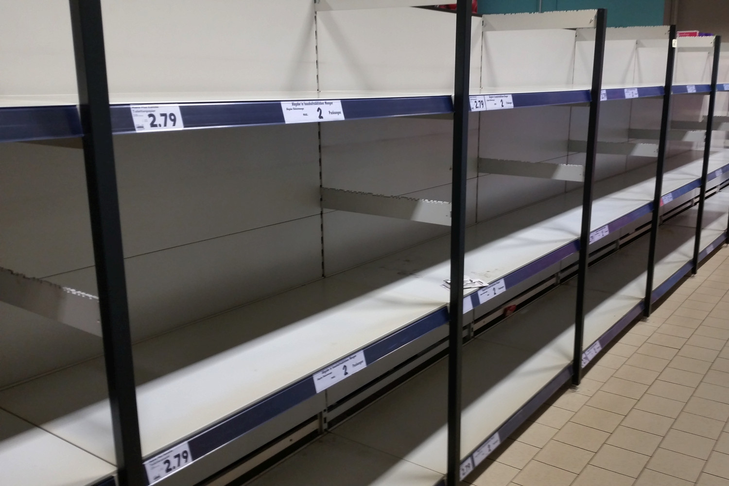 the stores were mostly empty because people expected the goods running out soon because of delayed delivery and false information - toilette paper was out, so was desinfection paper and handkerchiefs. nothing available for days!!!!